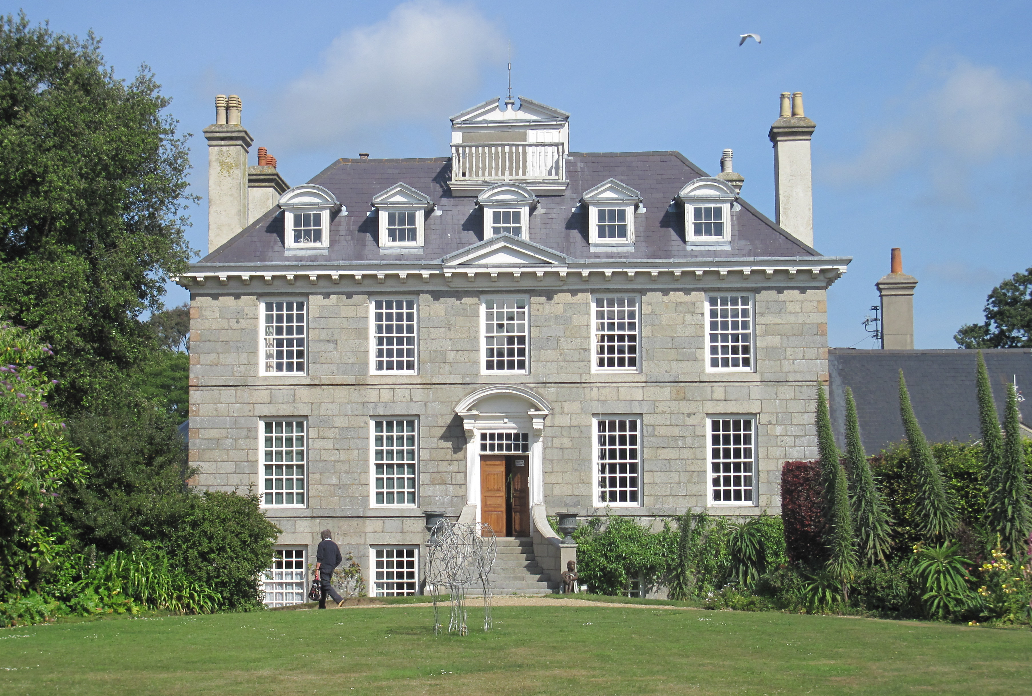 Guernsey, June-July 2011: Sausmarez Manor